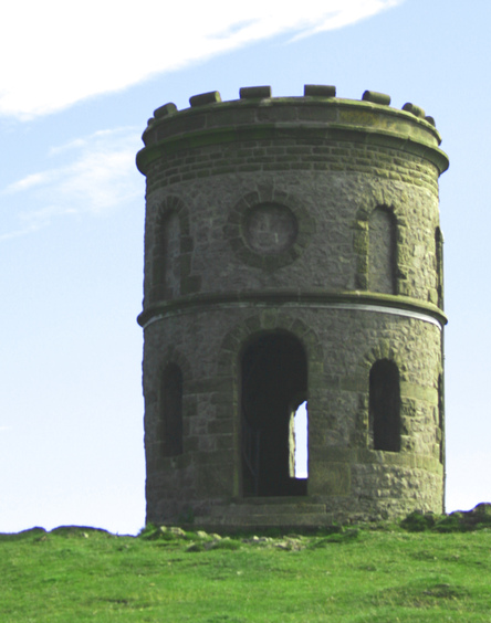 The folly on top of Grinlow in the Country Park near Buxton in Derbyshire